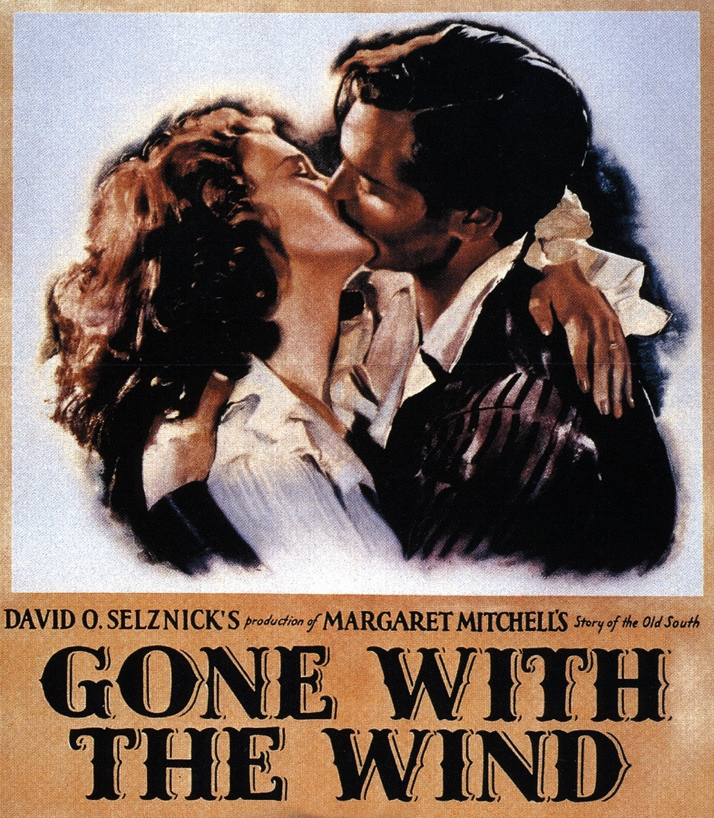 Film poster for Gone with the Wind. The public domain status of the poster is confirmed by court decision, although limitations may apply.